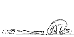 Ashtanga and Panchanga Pranam